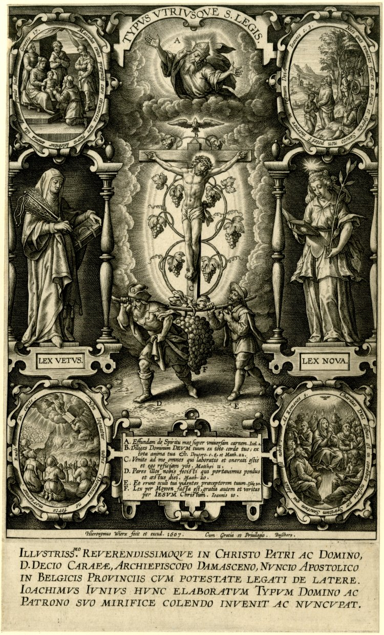 Engraving from British Museum: at centre, the two spies of Moses carrying a pole between them with a large bunch of grapes hanging from it; behind, Christ on the cross surrounded by bunches of grapes; the dove of the Holy Ghost above; the personification of the Old Law seen to left and New Law to right above, at centre, God the Father; on the Old Law side two medallions with the Circumcision and Moses receiving the tables of the Law; on the New Law side two medallions with [the Baptism of Christ and the descent of the Holy Ghost.